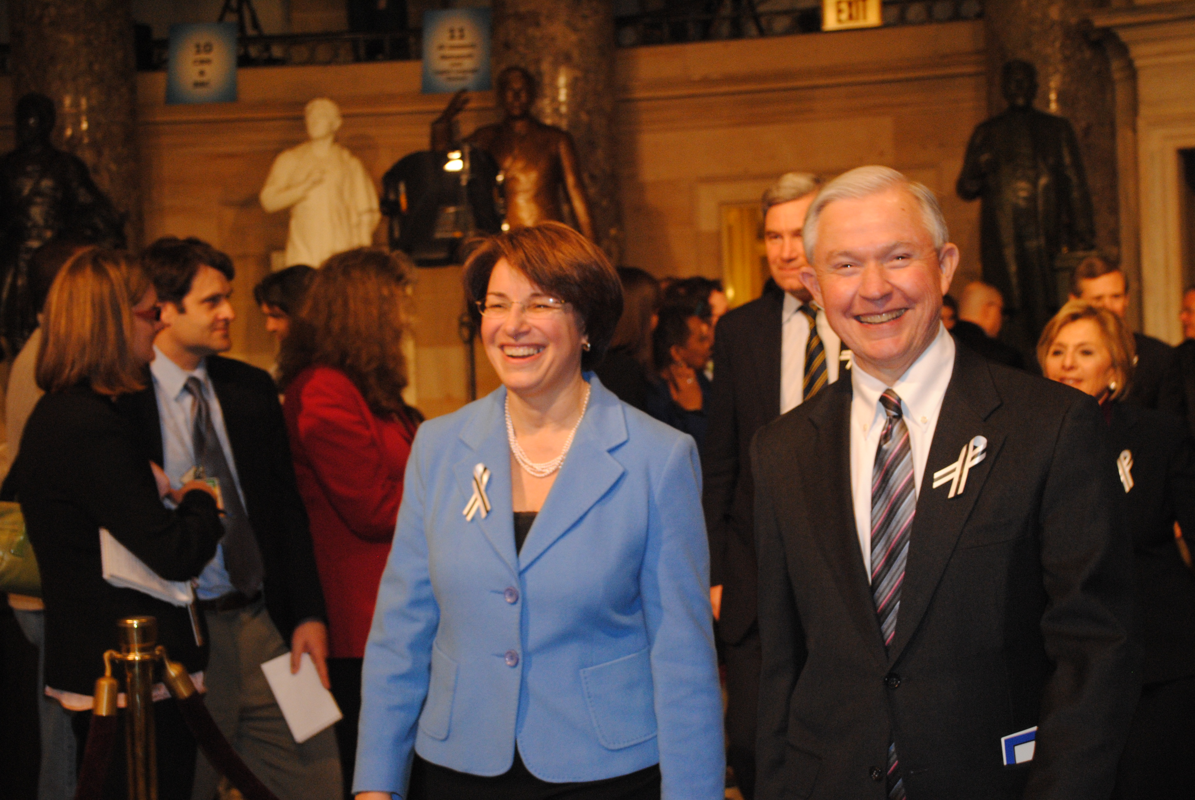 Photo: Allyson Byers